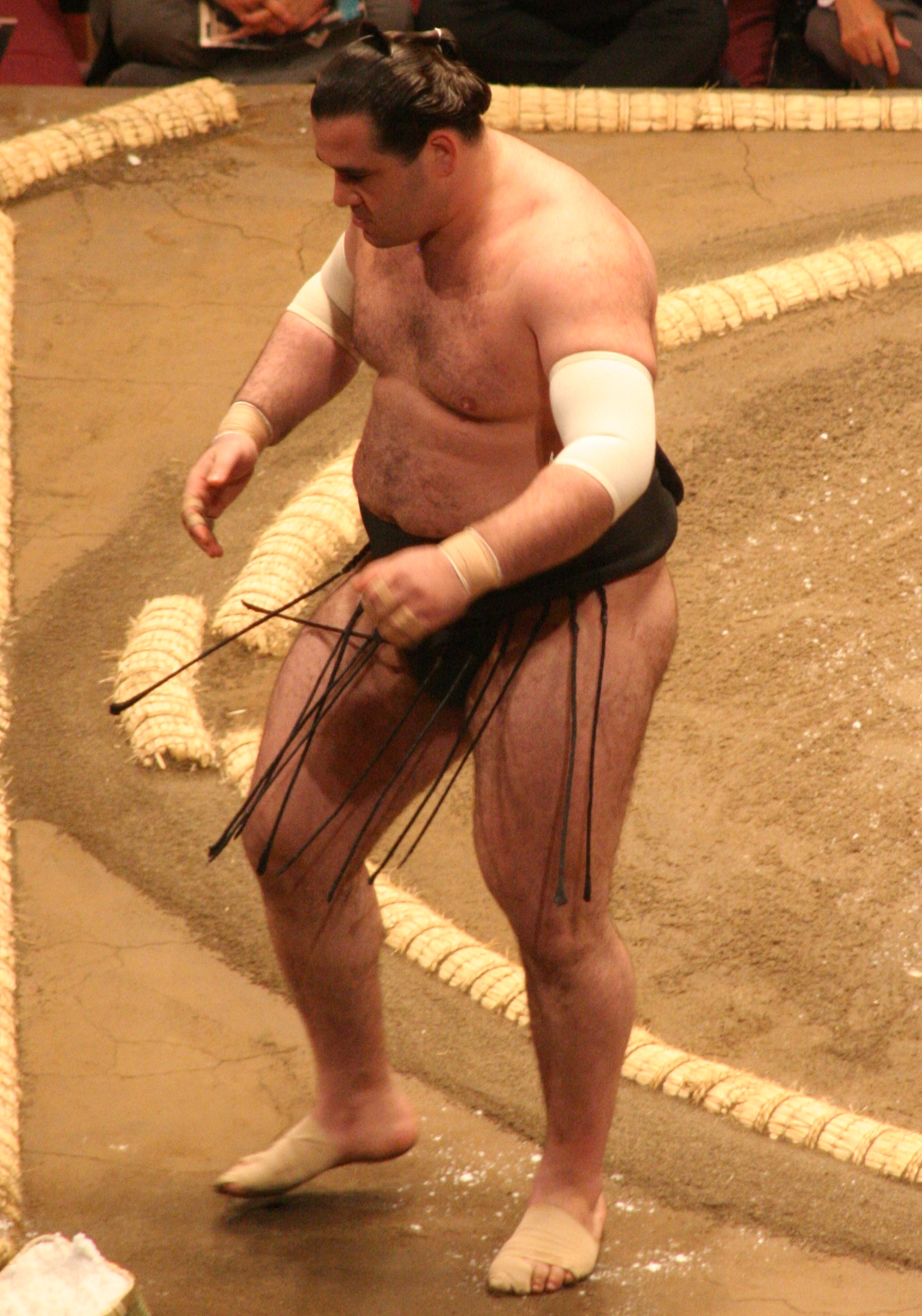 First day of 2009 May Sumo Tournament in Tokyo, Japan - Aran